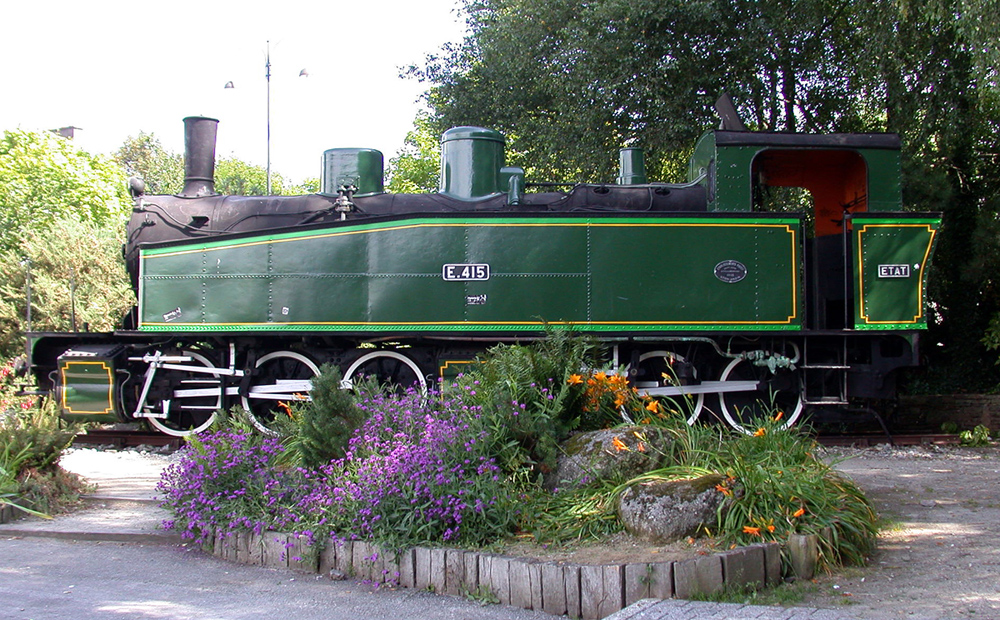 French locomotive for narrow (1000 mm) gauge ex "réseau breton" subsidiary of the old Ouest company merged with Etat company in 1908. Engine on display near the Carhaix station